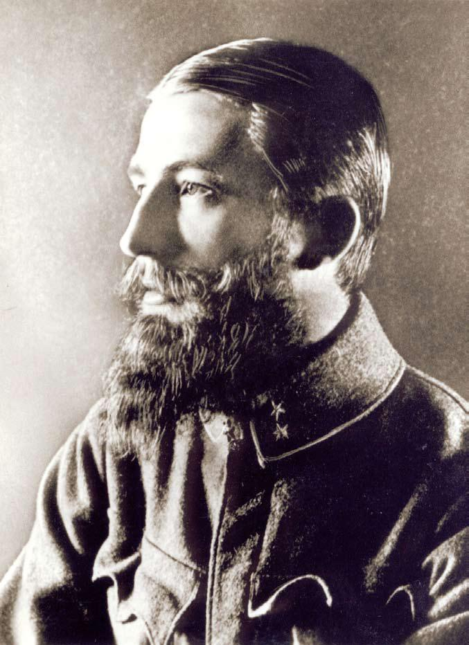 Andriy Melnyk Ukr. Андрій Мéльник (1890-1964) Ukrainian military and political leader. Leader of Organization of Ukrainian Nationalists (1938-), Here in an uniform of officer of Ukrainian Sich Riflemen 1914